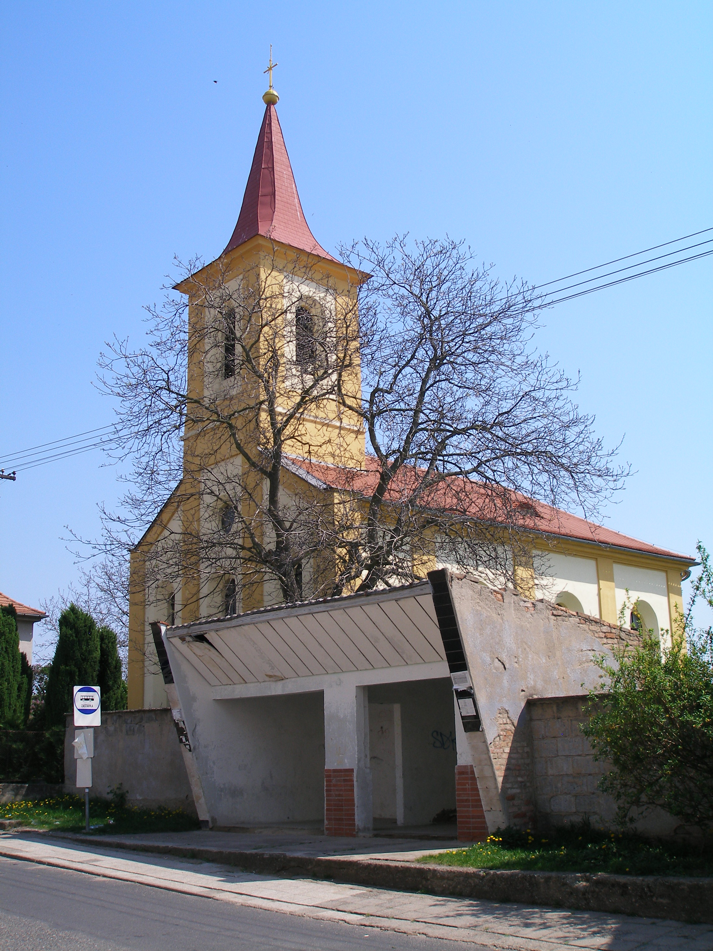 Church in the Libkovice pod Řípem.